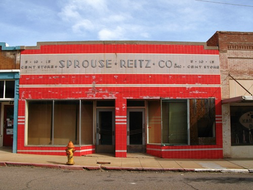 Former Sprouse-Reitz store in Bisbee, Arizona. It is located on Erie Street in an area of Bisbee known as Lowell.